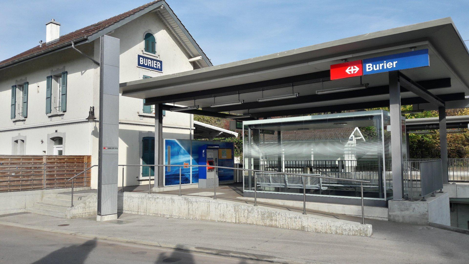 Burier railway station in La Tour-de-Peilz, Switzerland.